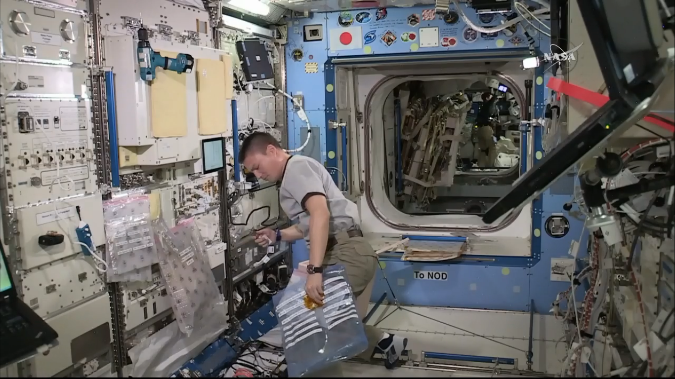 Kjell Lindgren as ISS Expedition 44 Flight Engineer.